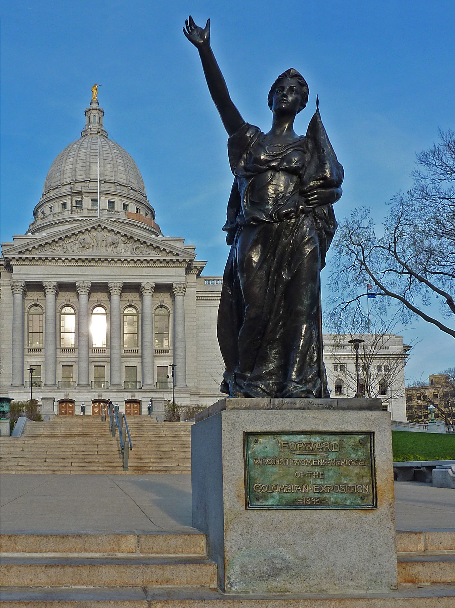 This is a copy of the figurehead statue "Forward", which was created at the Columbian World Exposition in Chicago (1893) by artist-in-residence Jean Pond Miner. The title of the statue adopts the motto of the State of Wisconsin, and funding was provided by the women of Wisconsin. Following display in Chicago, the statue was initially installed at the State Capitol in Madison, Wisconsin. It has now been removed to the interior of the Wisconsin Historical Society, and a copy is on display near the State Capitol at the corner of State Street and Mifflin Street.